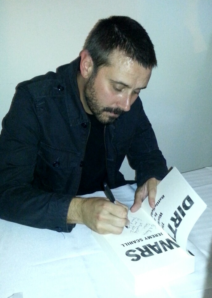 Jeremy Scahill at a book signing in Brooklyn.